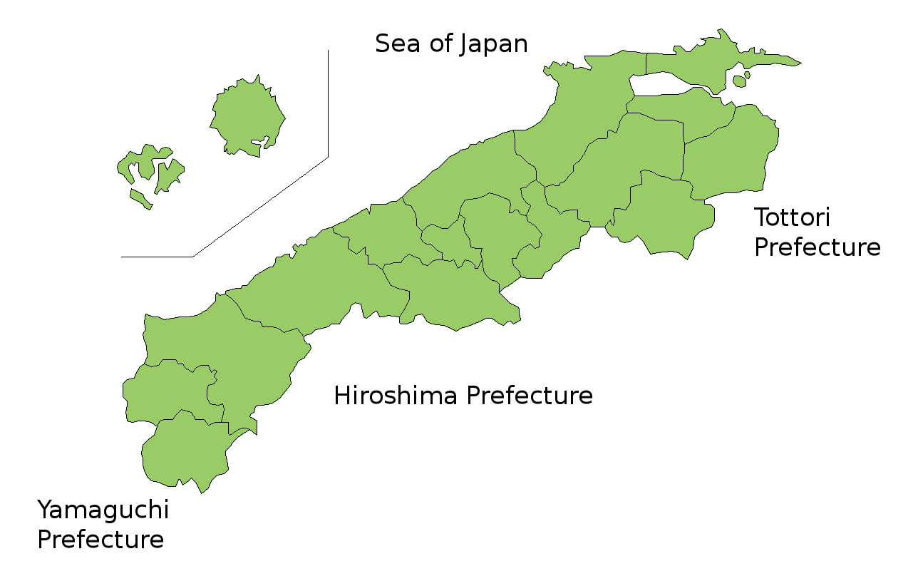 Map of the Oki Islands, Shimane Prefecture, Japan (1.Dogo, 2. Nishino, 3. Nakano, 4. Chiburi)